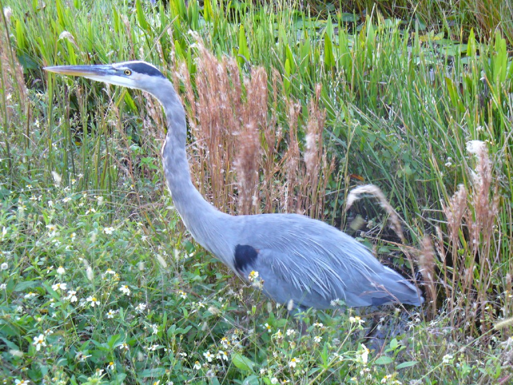 Great Blue Heron, NPSphoto, P.Baxter